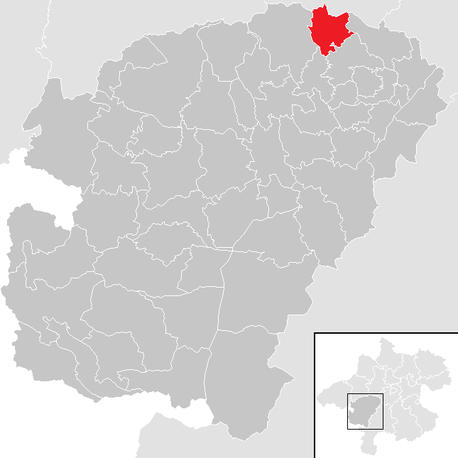 District Vöcklabruck